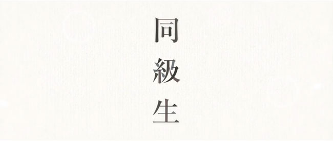 Doukyuusei logo.